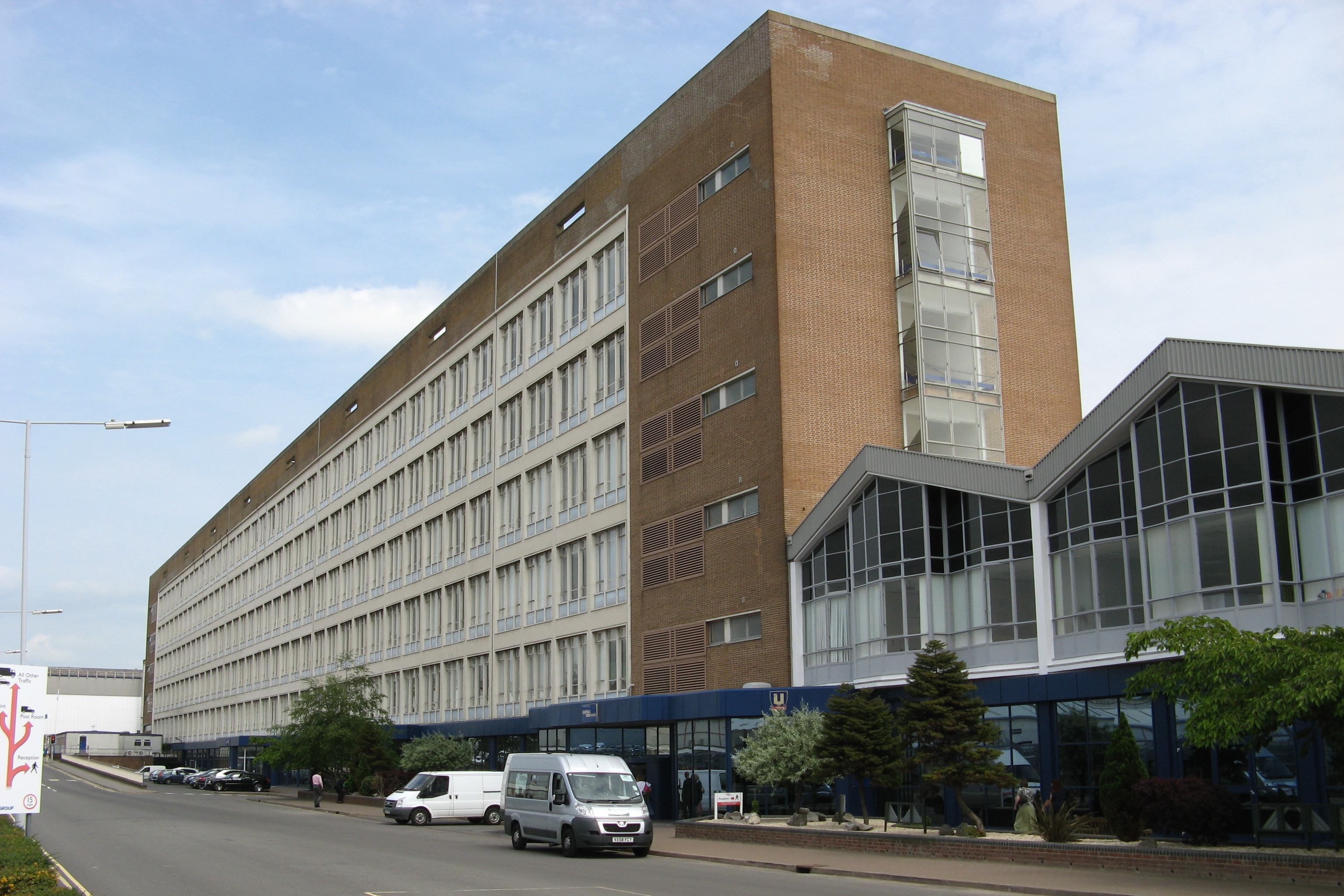 Unipart House, Cowley, Oxford, England. Headquarters of Unipart Group Limited, and some subsidiaries. Also used by many other companies for rented offices. Beyond Unipart House, part of the Unipart Logistics warehouse frontage can just be seen.